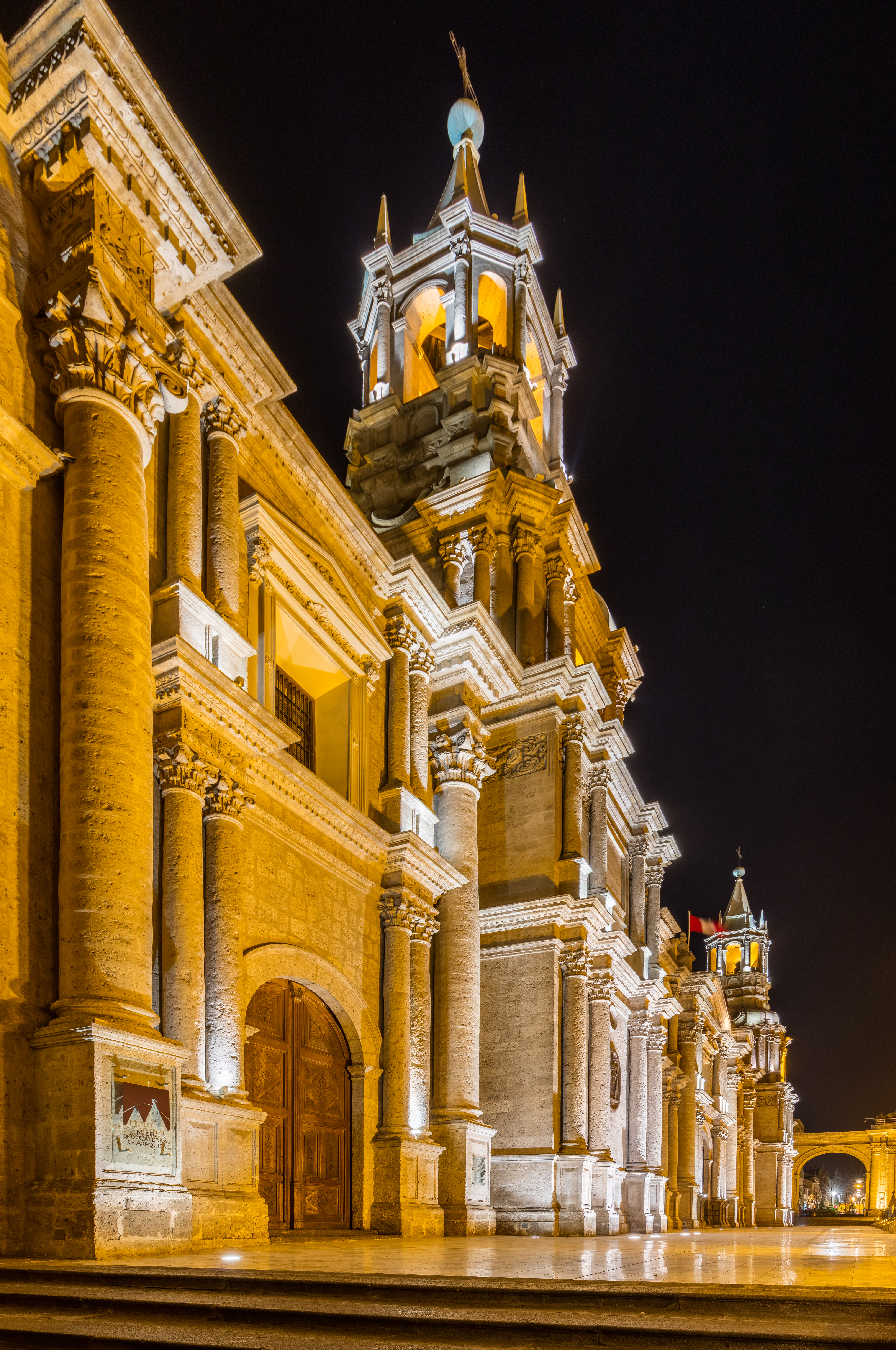 Cathedral Basilica, Arequipa, Peru